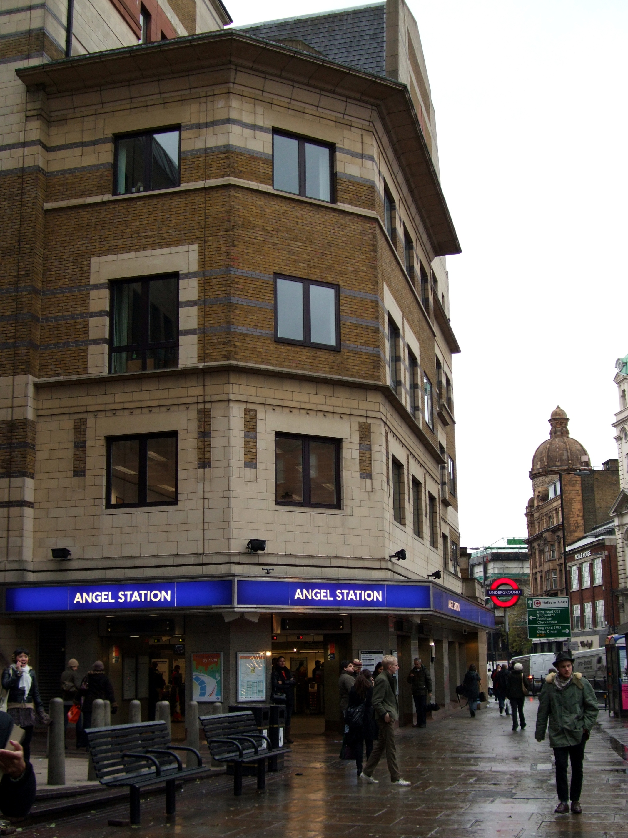 Angel tube Station building